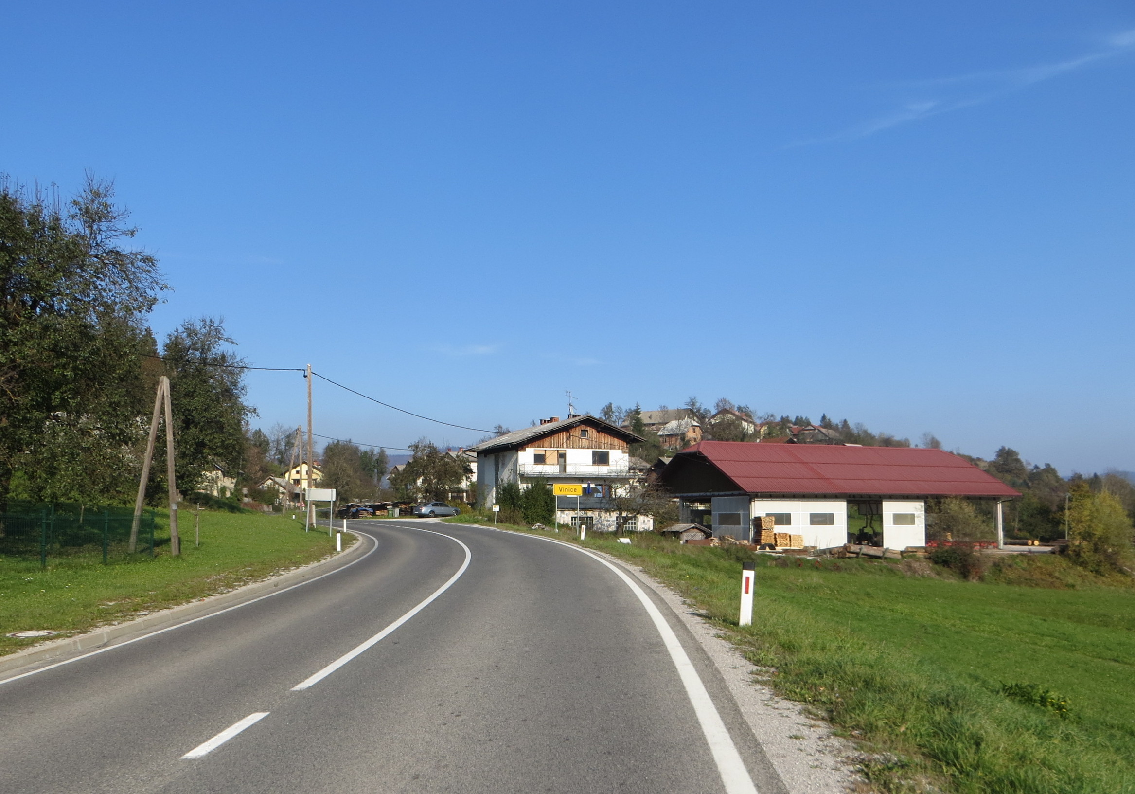 Vinice, Municipality of Sodražica, Slovenia